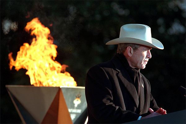 President George W. Bush speaks during the 2002 Olympic Torch Relay Ceremony on the South Lawn Dec. 22. "Each torch bearer's story is a lesson in citizenship and courage and compassion," said the President announcing the two torch runners, Liz Howell and Eric Jones. Both runners were profoundly affected by the Sept. 11 attacks.